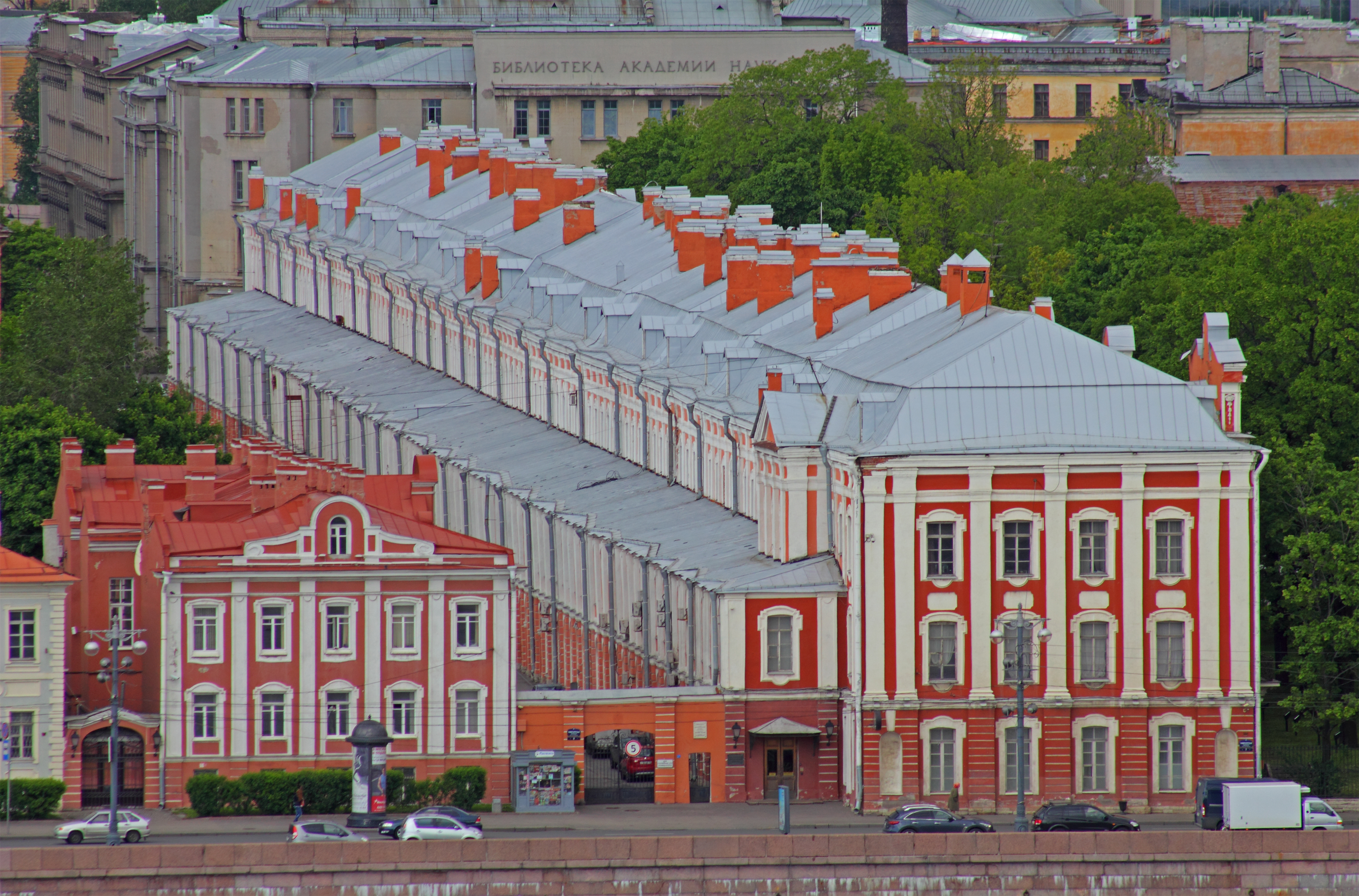 Saint Petersburg, Russia. The ensemble of the University Embankment, as seen from the Cathedral of St. Isaac.